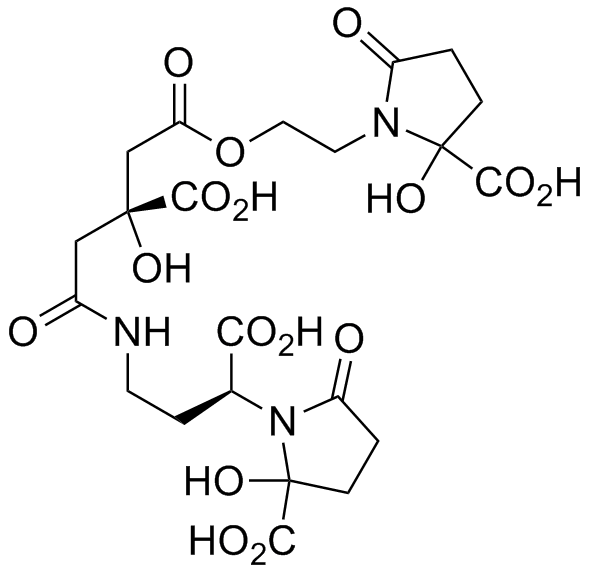 Achromobactin.png